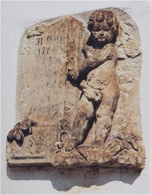 Pirna: View on a high-water mark. The mark evoked on the Elbe-flood 1784. She is situated 2,5 m above ground.